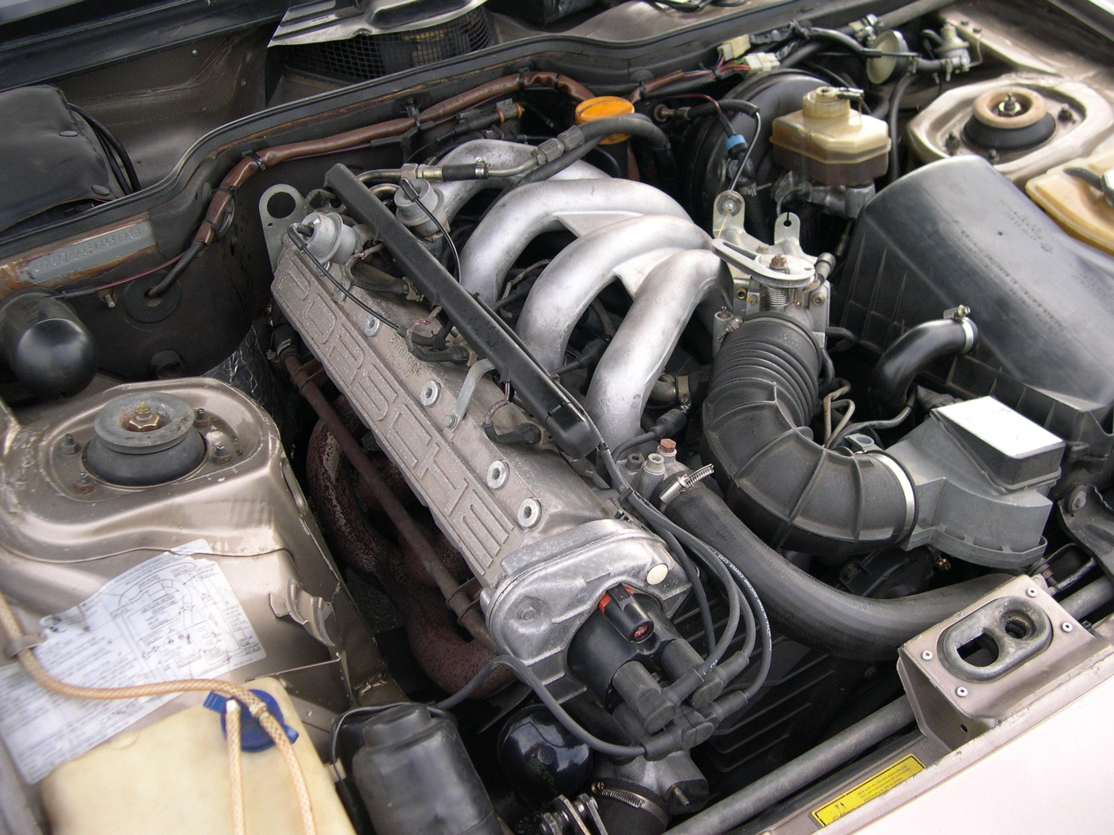 1986 Porsche 944 2.5 L straight-4 engine